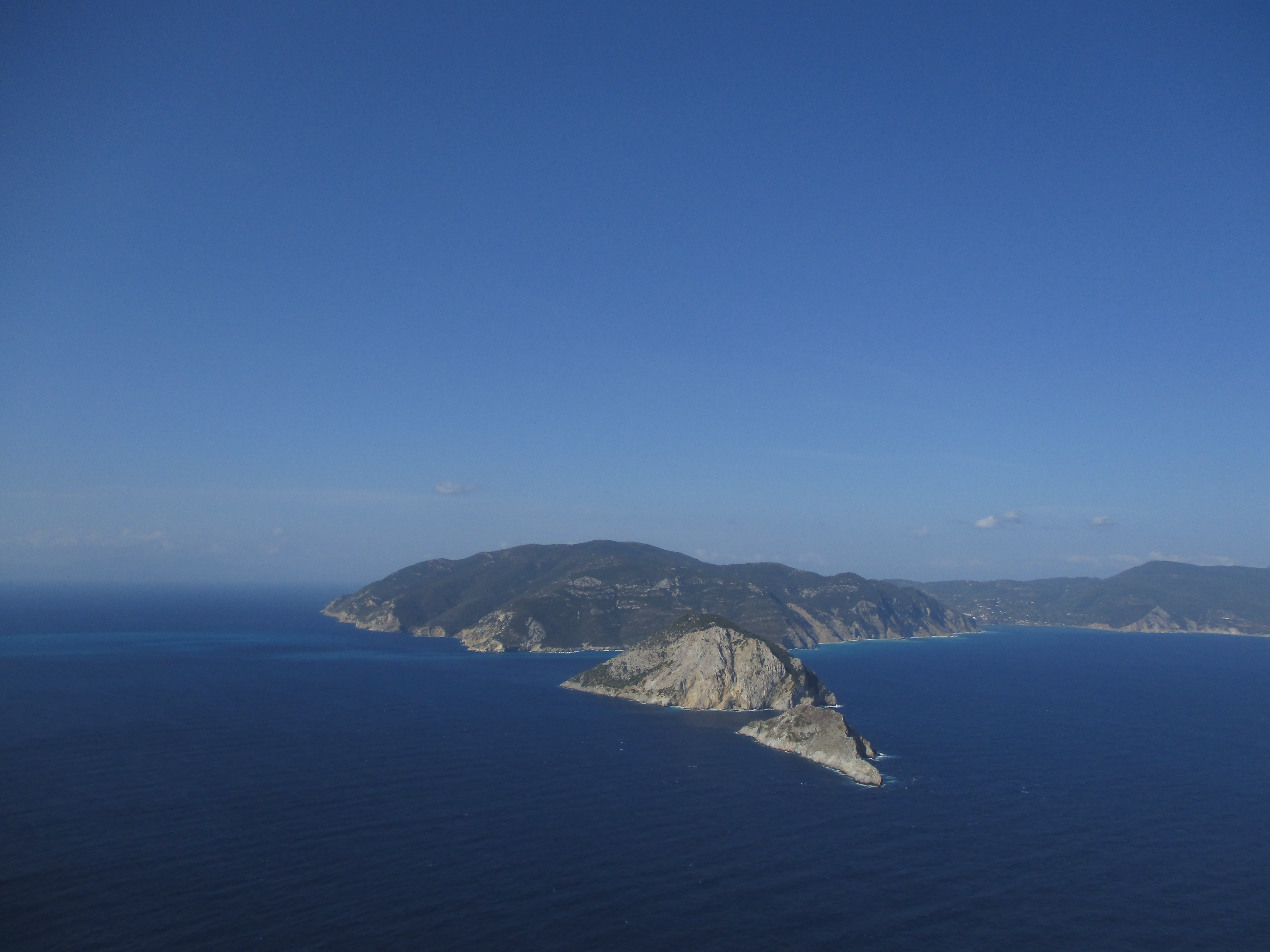 This is a photography of Natura 2000 protected area with ID GR1430004